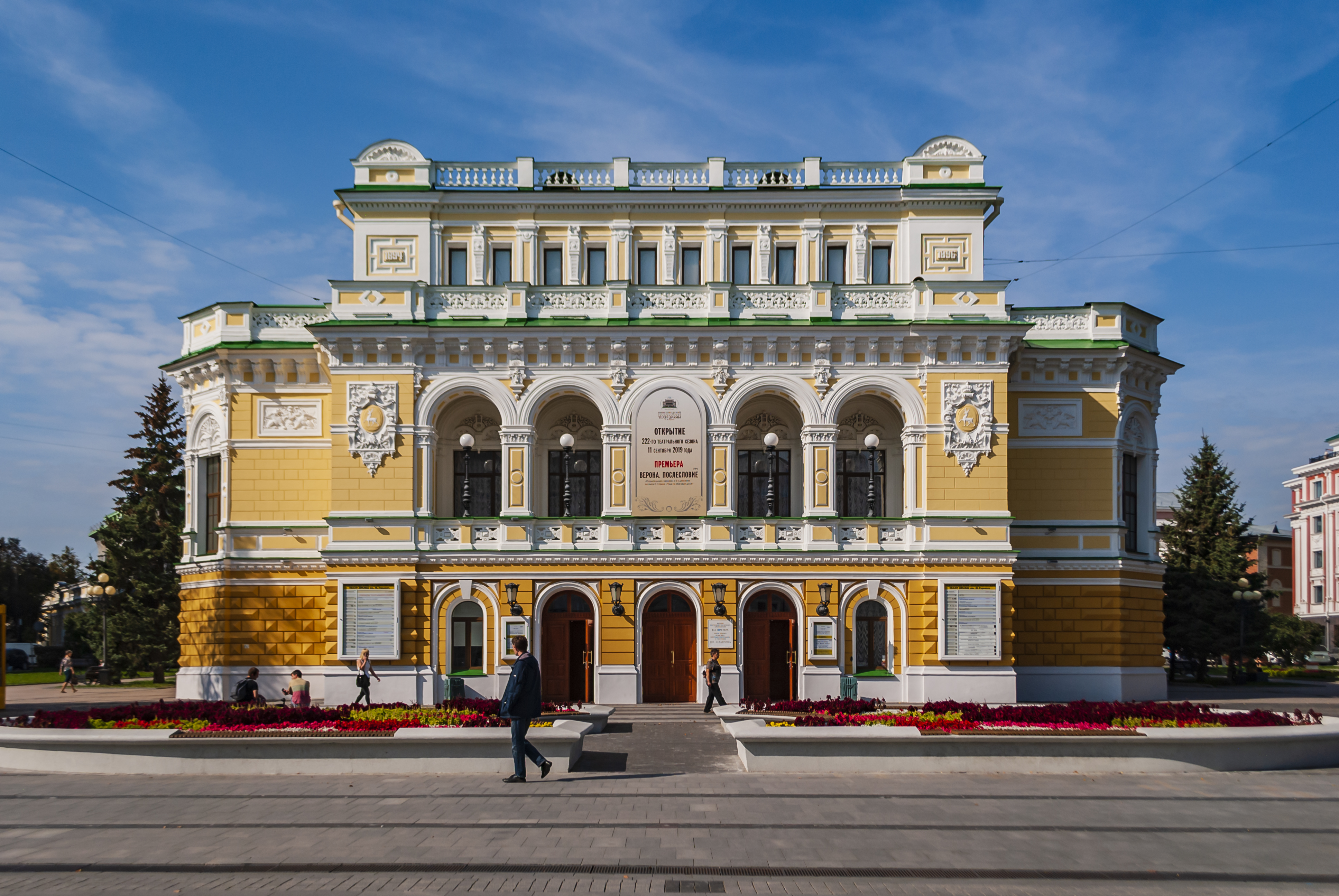 Nizhny Novgorod Drama Theater on Bolshaya Pokrovskaya Street